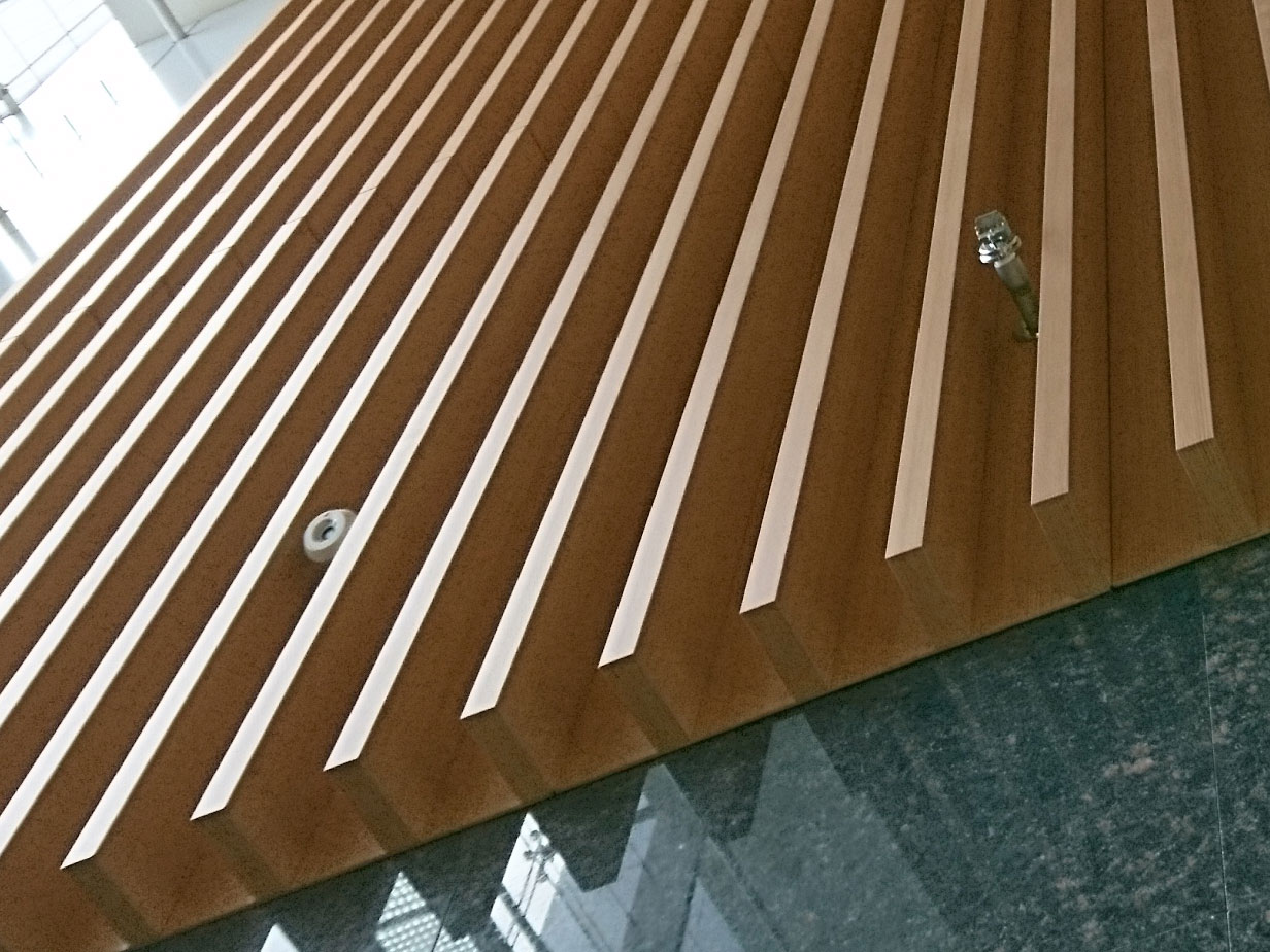 Sidewall fire sprinkler head and fire detector in the JP tower Nagoya building in Japan.